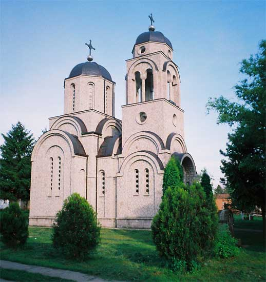 Backi_Sokolac_orthodox_church